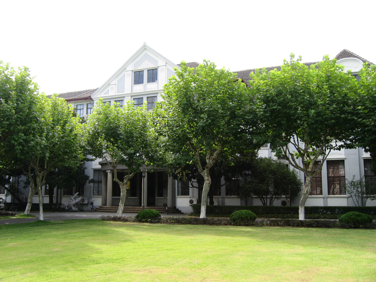 复旦大学数学楼，校园内现存最古老建筑。 The oldest building on Fudan campus, Mathematical Building, Shanghai, China